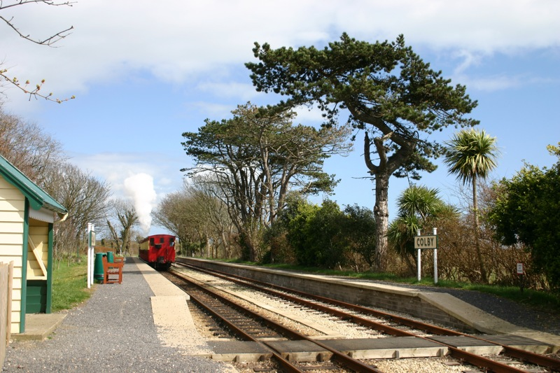 Isle of Man Steam Railway - train in Colby station